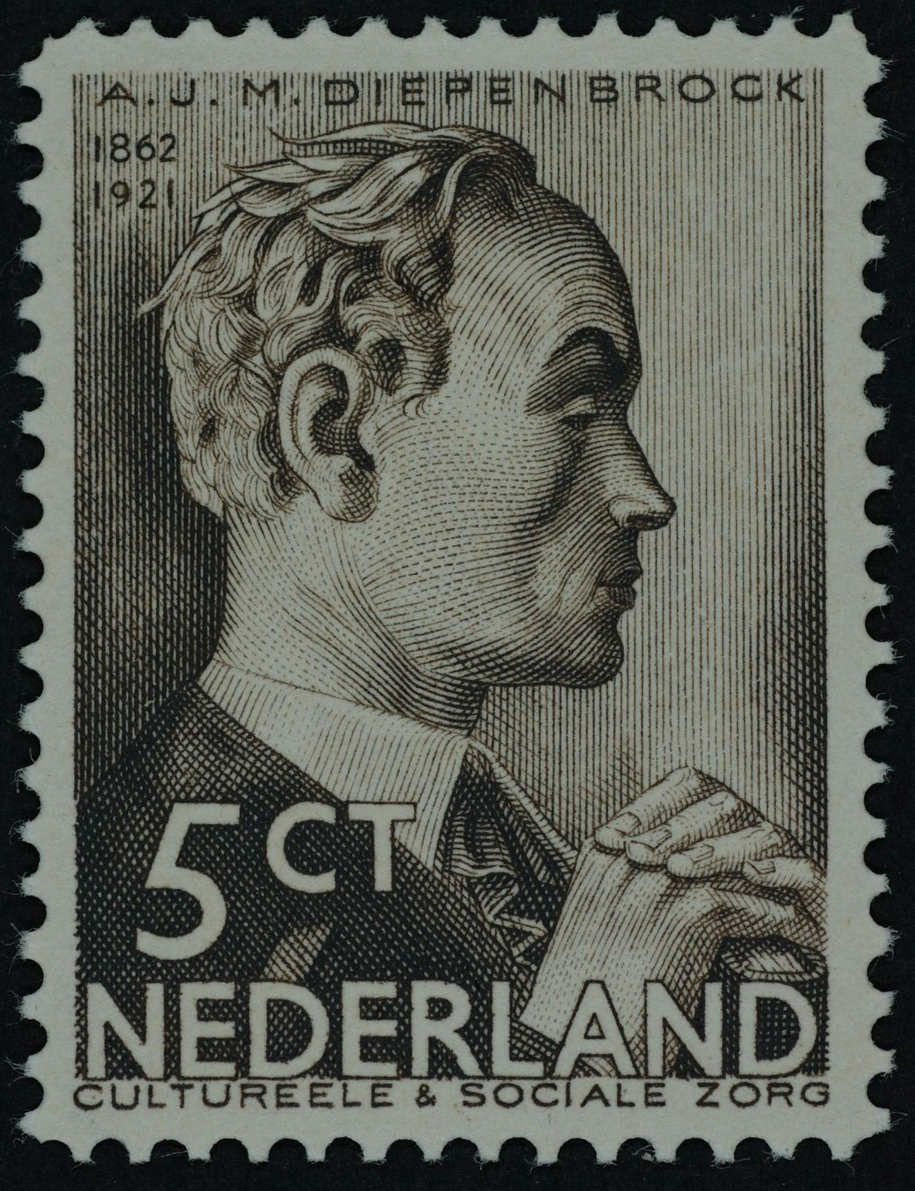 Dutch stamp, head of composer Alphons Diepenbrock. 1935. ("Zomerpostzegel") Design by Willem Konijnenburg, engraving by Rudolf Steinhausen, printing by Joh. Enschedé & Zn.